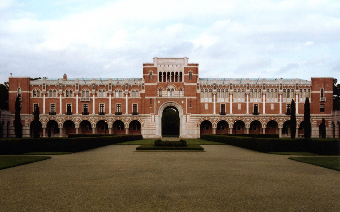 Rice University, Lovett Hall, Houston, Texas